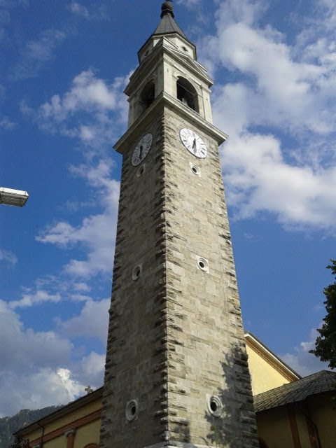 Church tower of San Bartolomeo in Tiarno di Sotto, Ledro, Trentino, Trentino-South Tyrol, Italy